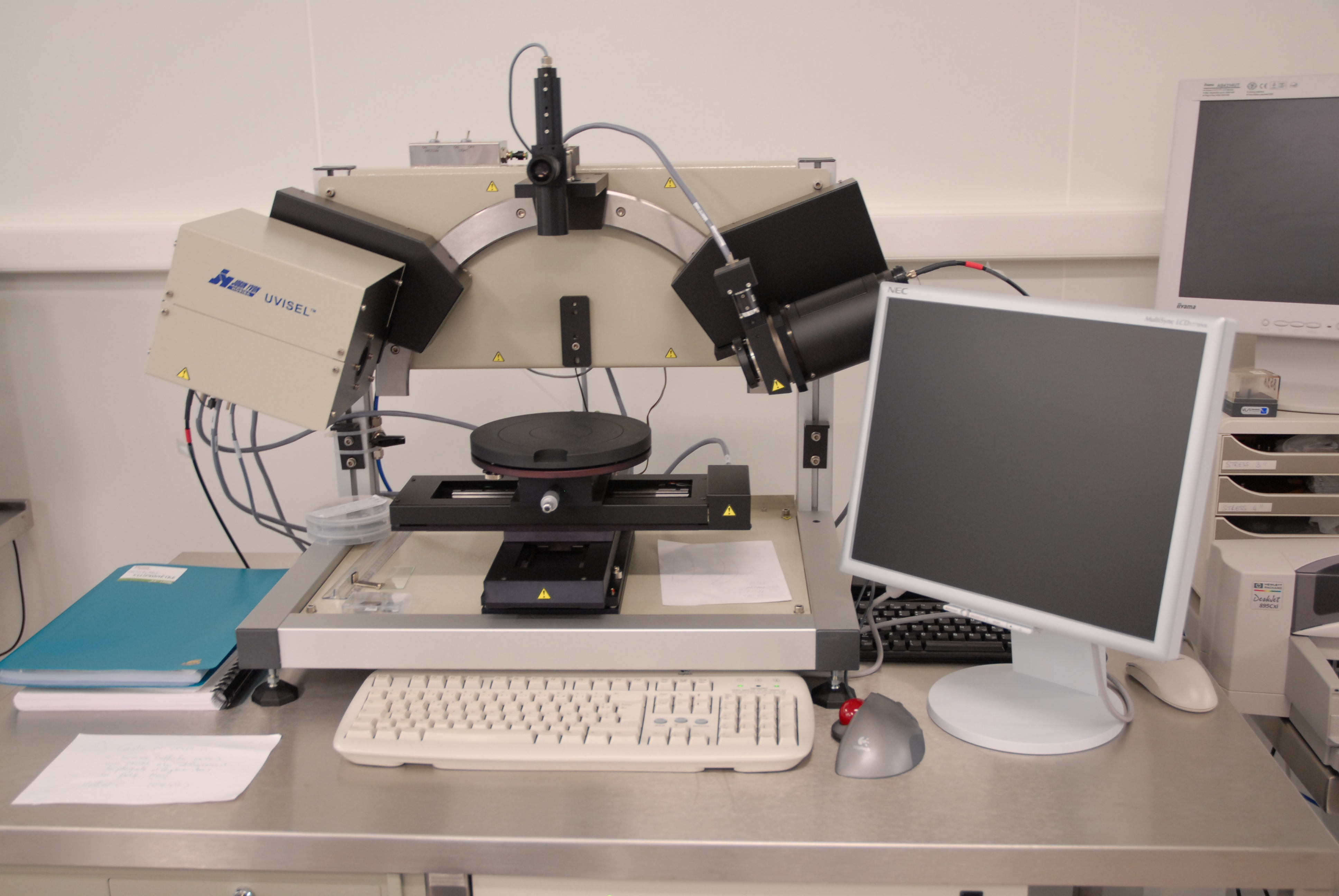 Ellipsometer at LAAS-CNRS technological facility in Toulouse, France.